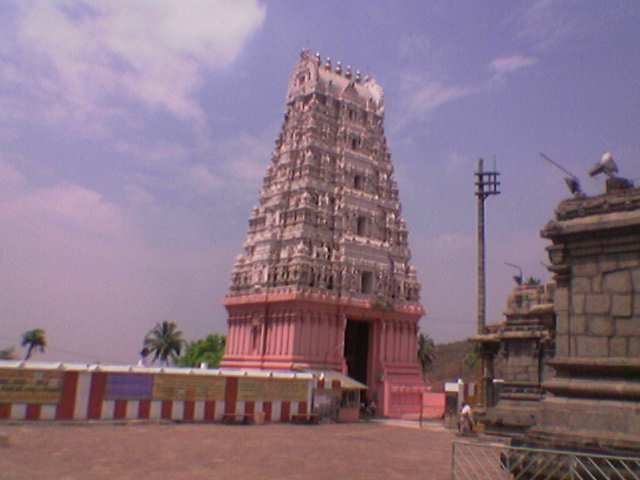 Simhachalam temple gopuram from inside. mobile cam pic of simhachalam temple entrance tower. The picture taken from inside temmple so steps are not seen